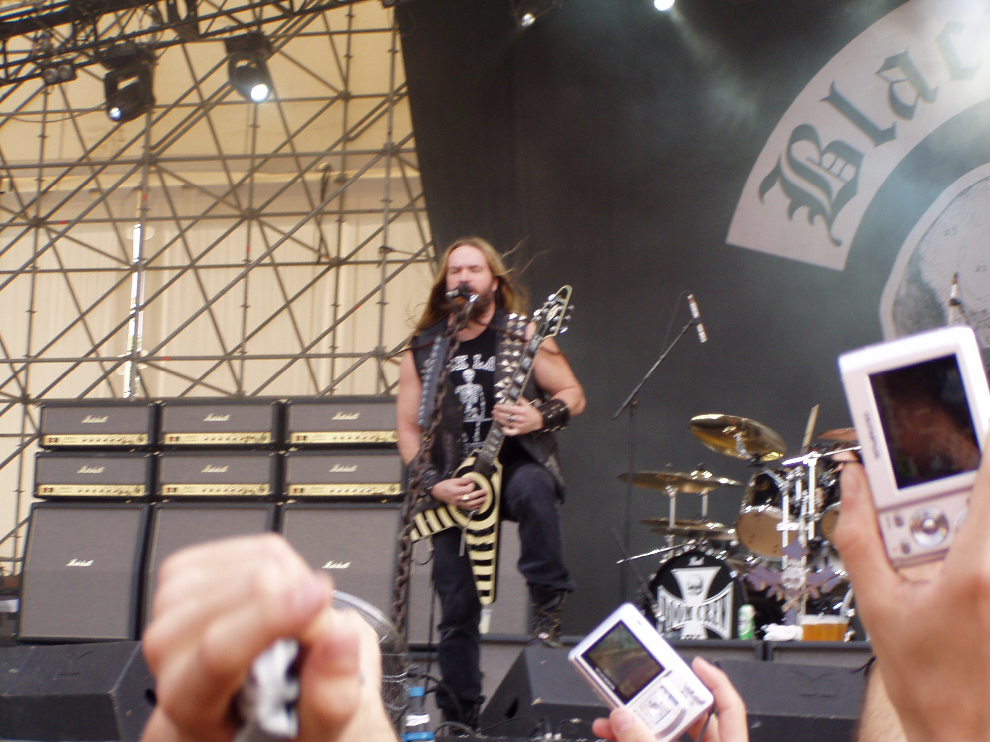 I Black Label Society al Gods of Metal